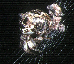 female Cyclosa mulmeinensis from Okinawa.